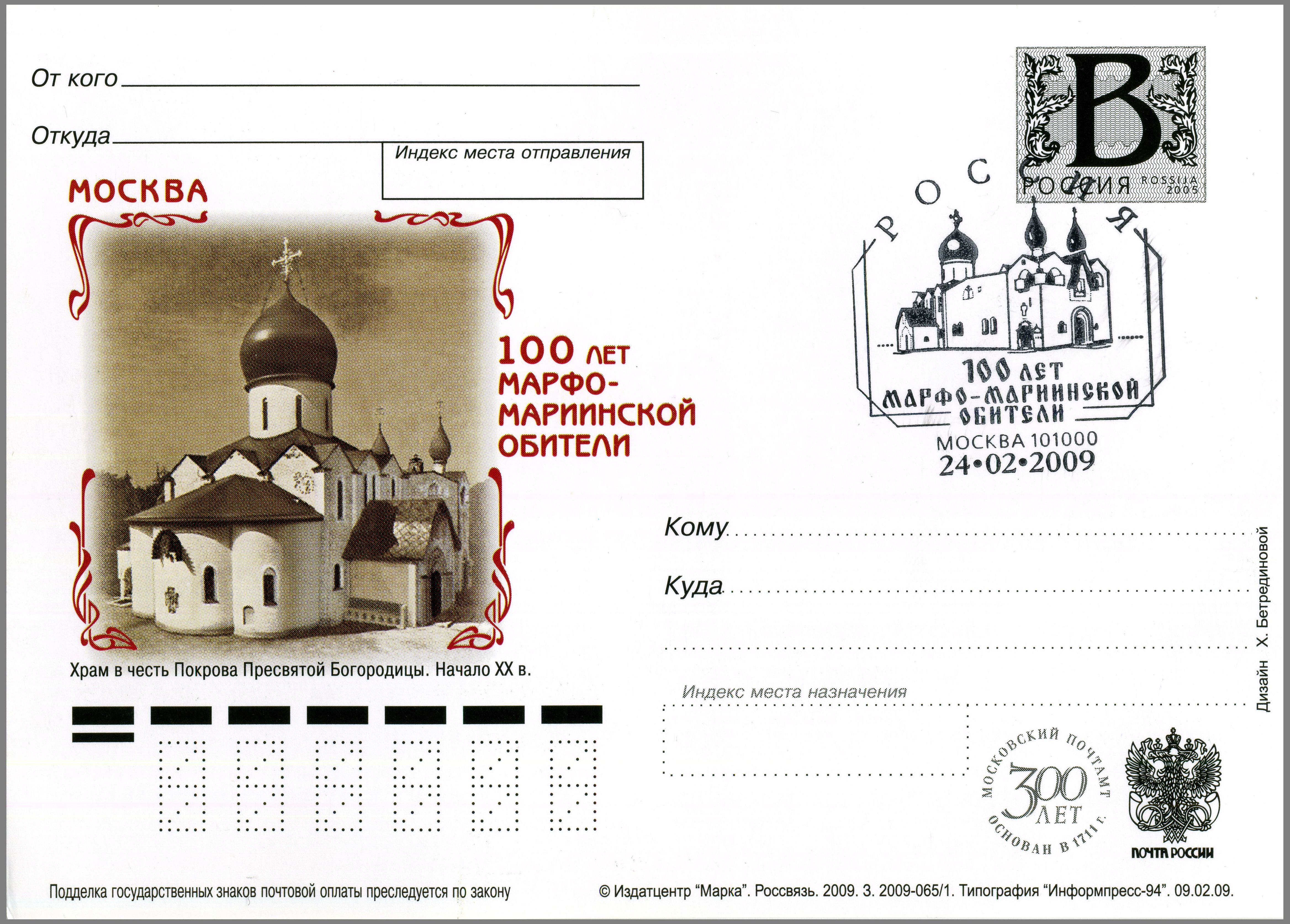 100th Anniversary of Marfo-Mariinsky Convent. The Holy Protection Cathedral (the beginning of XX c.). The postal card with imprinted definitive non-denominated stamp 'Letter B', Russia, 09 February 2009, Catalogue of PTC Marka # 2009-065/1; pictorial cancellation, Moscow, 24 February, 2009. 100 лет Марфо-Мариинской обители. Храм в честь Покрова Пресвятой Богородицы (начало XX века). Односторонняя маркированная почтовая карточка с литерой В, Россия, 09 февраля 2009 г., каталог ИТЦ «Марка» # 2009-065/1 Дизайн Х. Бетрединовой. Специальное гашение "100 лет Марфо-Мариинской обители", Москва, 24 февраля 2009 г.